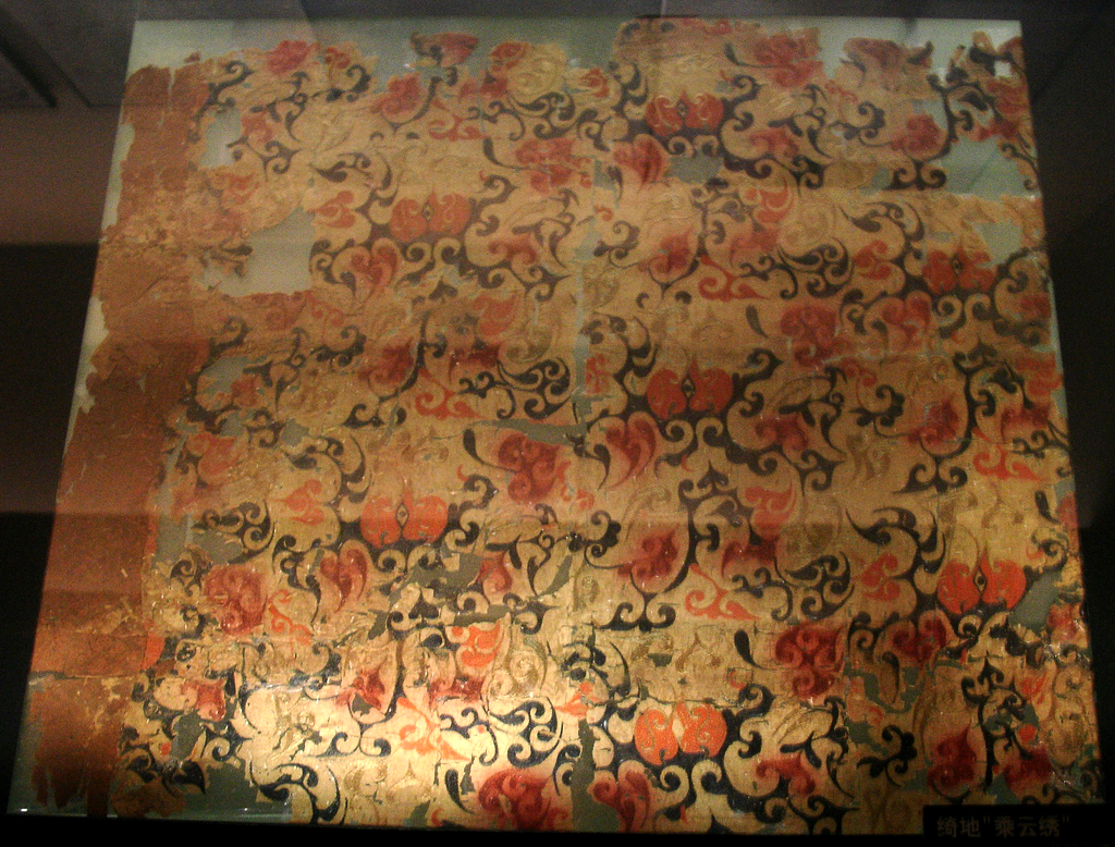 Flower-patterned silk from the Tomb No. 1 at Mawangdui, Changsha, Hunan province, China, dated to the 2nd century BC during the Western Han Dynasty (202 BC - 9 AD). See :[1] China Institute/ NOBLE TOMBS AT MAWANGDUI (exhibition). See also : [2] Archaeology, a publication of the Archaeological Institute of America.